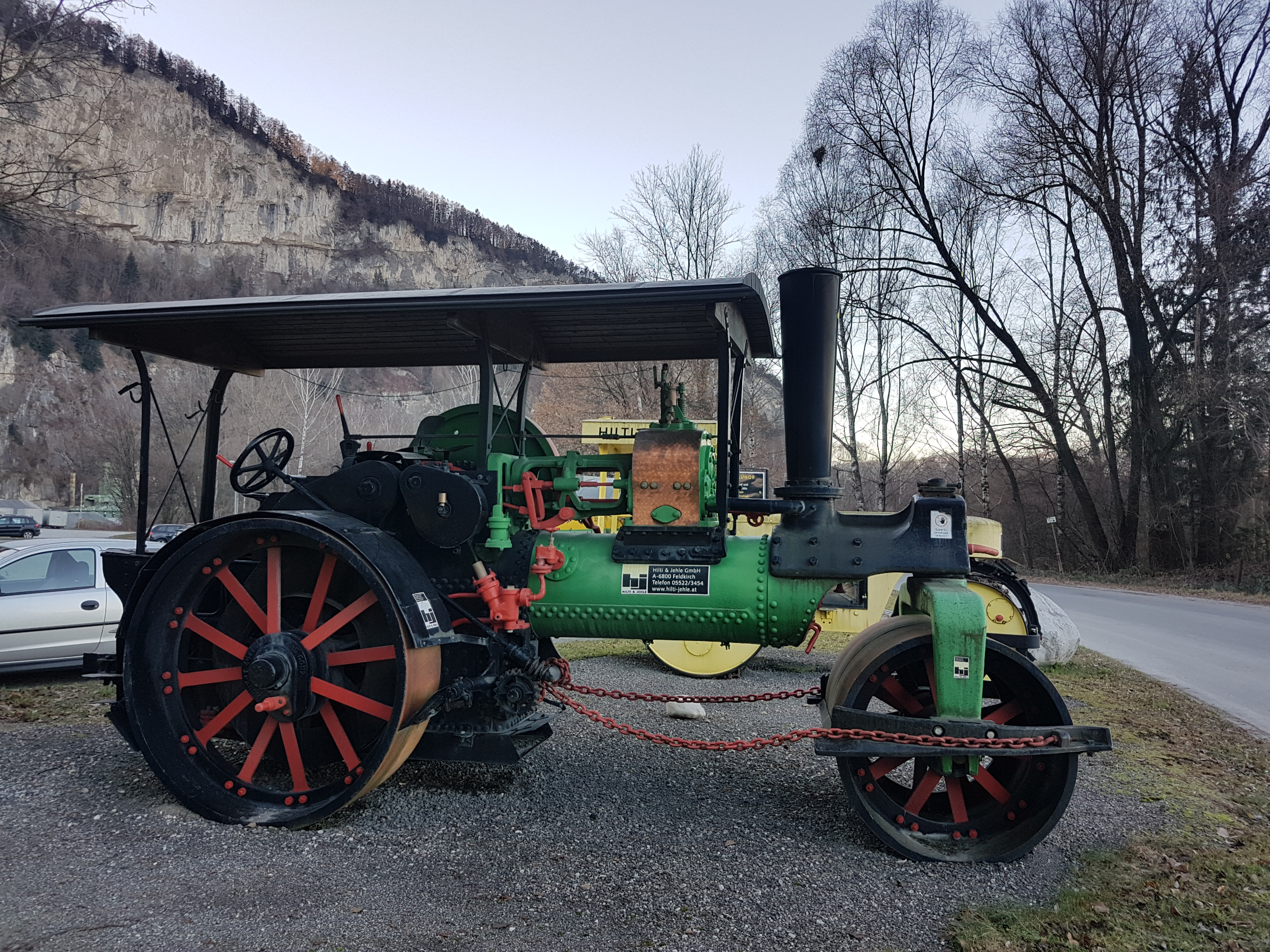 Tricycle steam road roller of the company Zettelmeyer, Konz - Trier. Owner: Company Hilti & Jehle Bau in Goetzis, Vorarlberg, Austria.